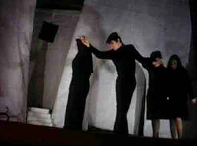 Salvador Sáinz play in the stage "Ronda de mort a Sinera", write for Salvador Espriu